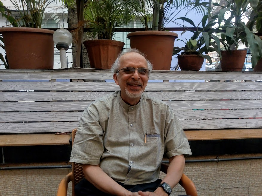 Dr. Yajnik